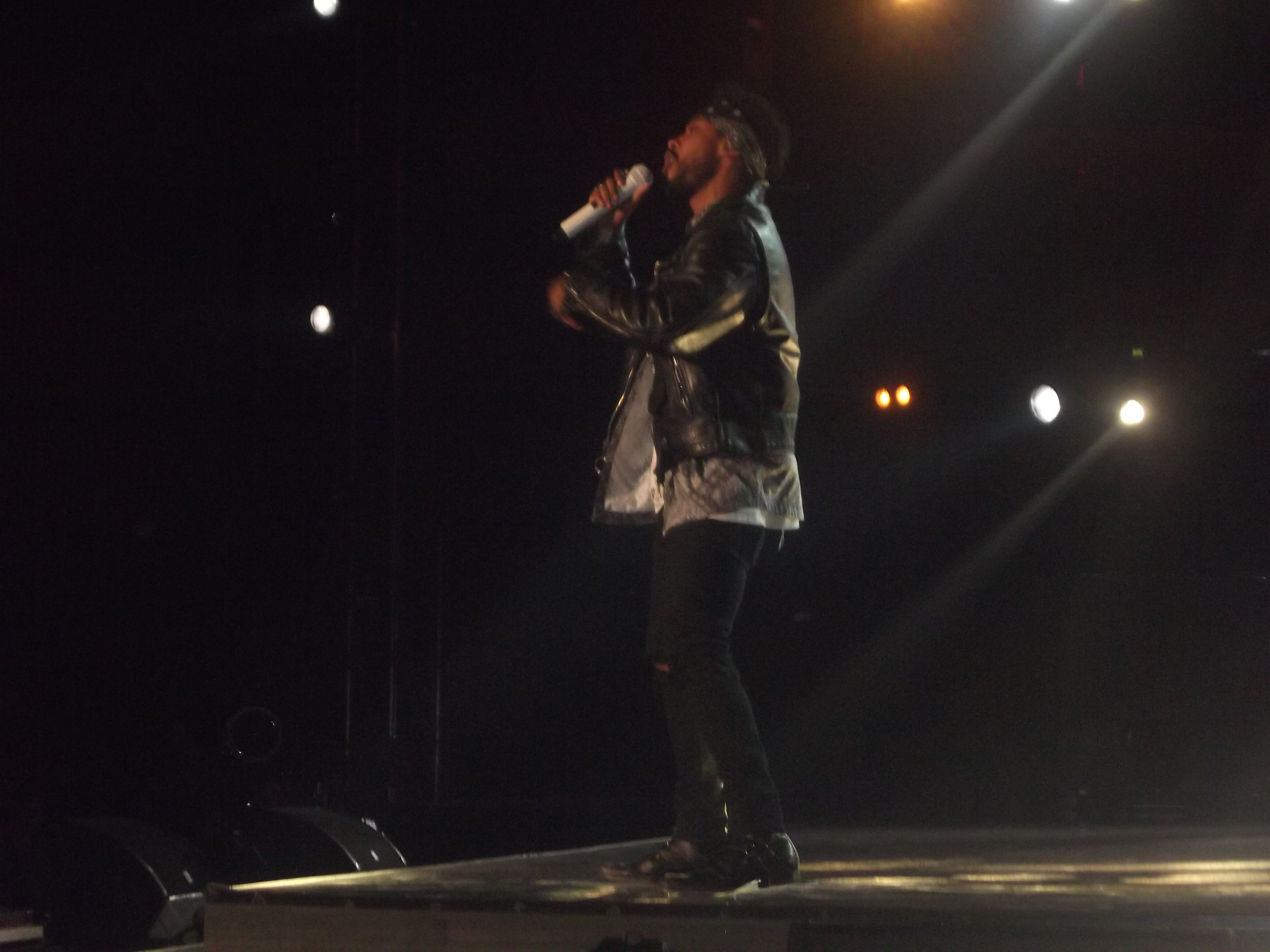 Miguel (Miguel Jontel Pimente) — performing at 2014 MTV Africa Music Awards.